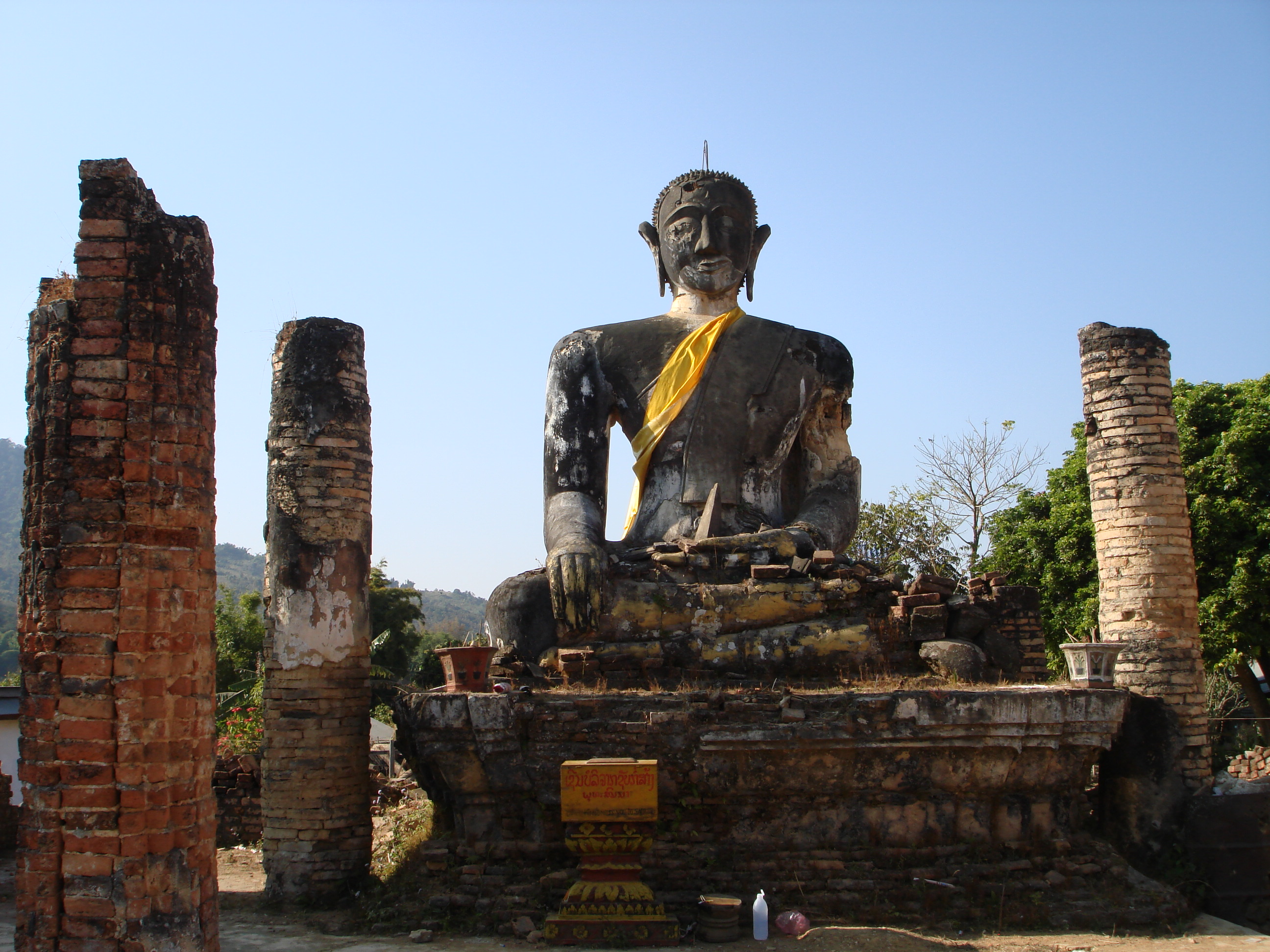 Wat Piawat in Xieng Khouang Province, Laos